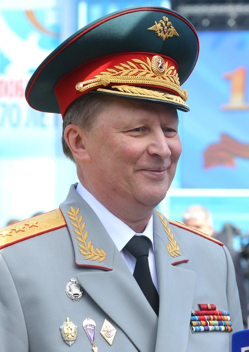 Sergei Ivanov on Victory Day Parade. Moscow, Red Square. 9 May 2015.